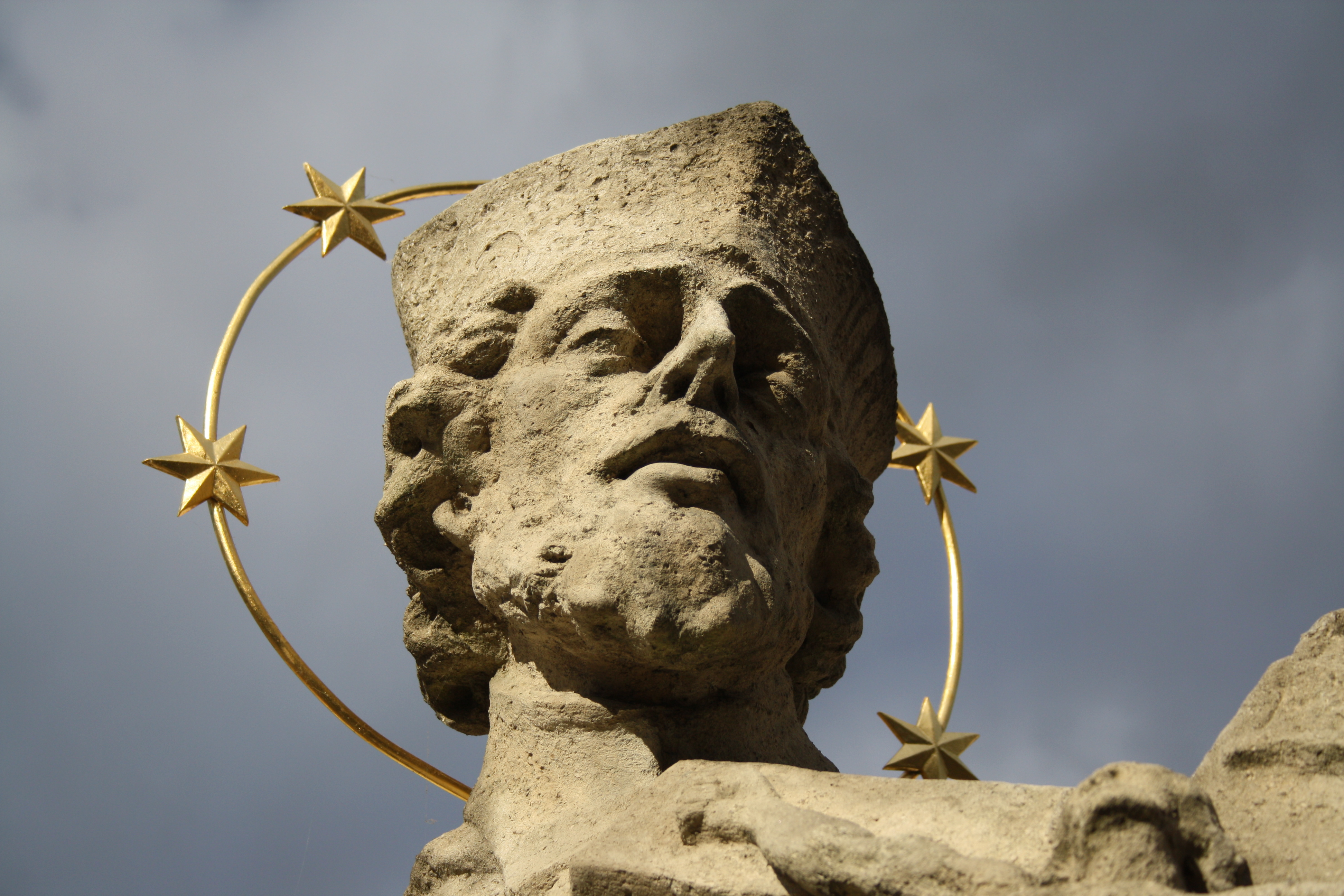 Head of statue of John of Nepomuk in Třebíč, Czech Republic.